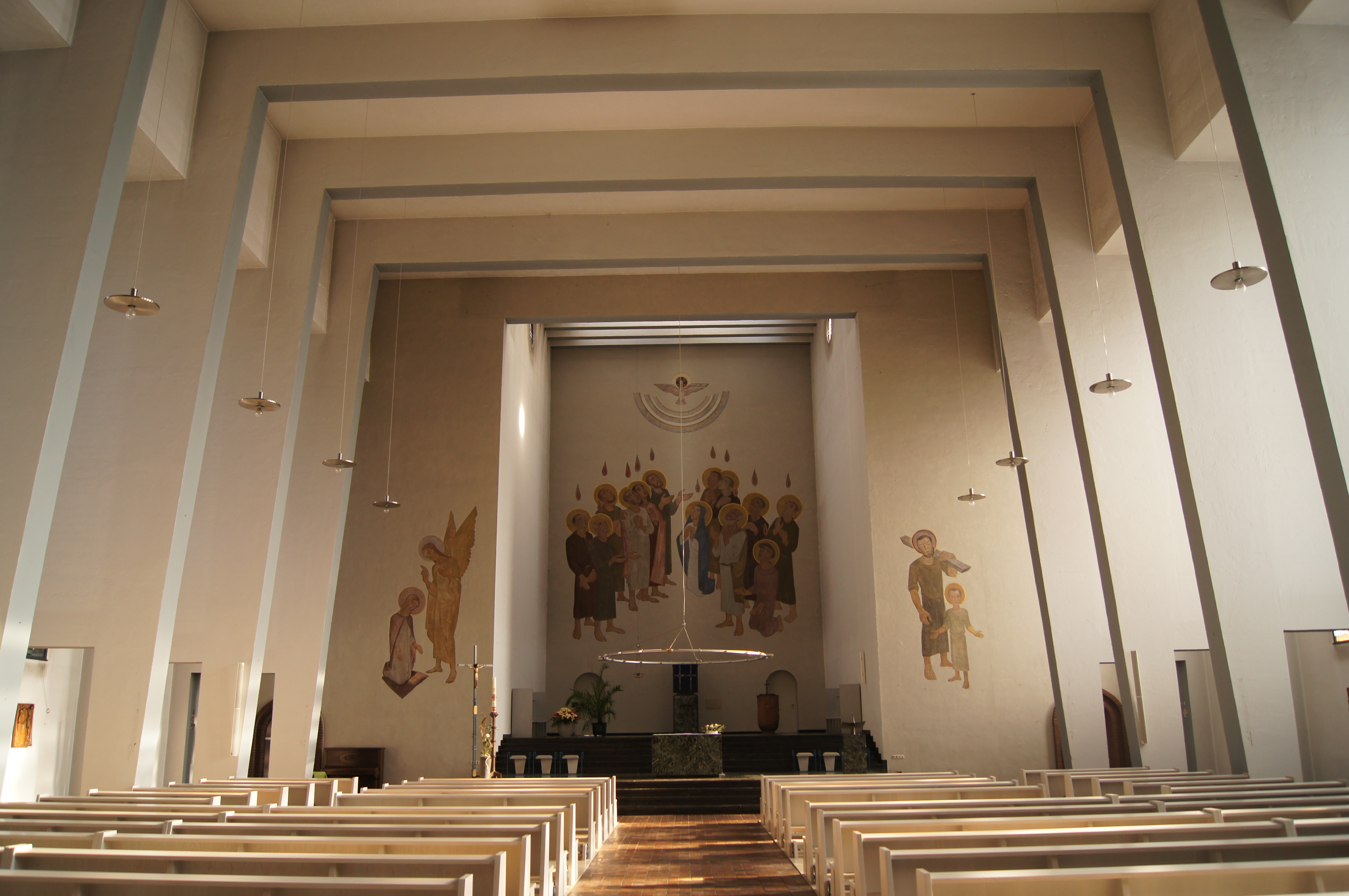 Inside the Heilig Geist Church in Münster, North Rhine-Westphalia, Germany. A loolk from west to east. Architect is Walter Kremer.